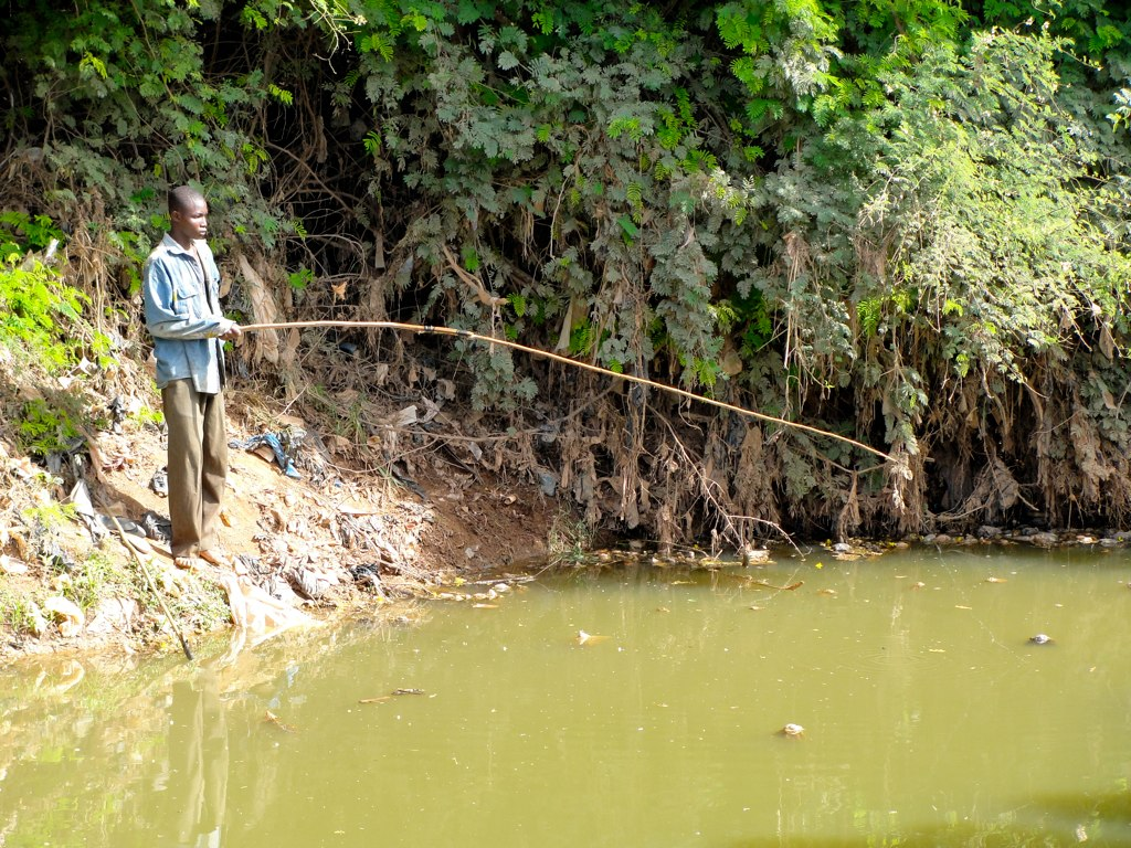 A man fishing from the banks of a lake in Burkina Faso.